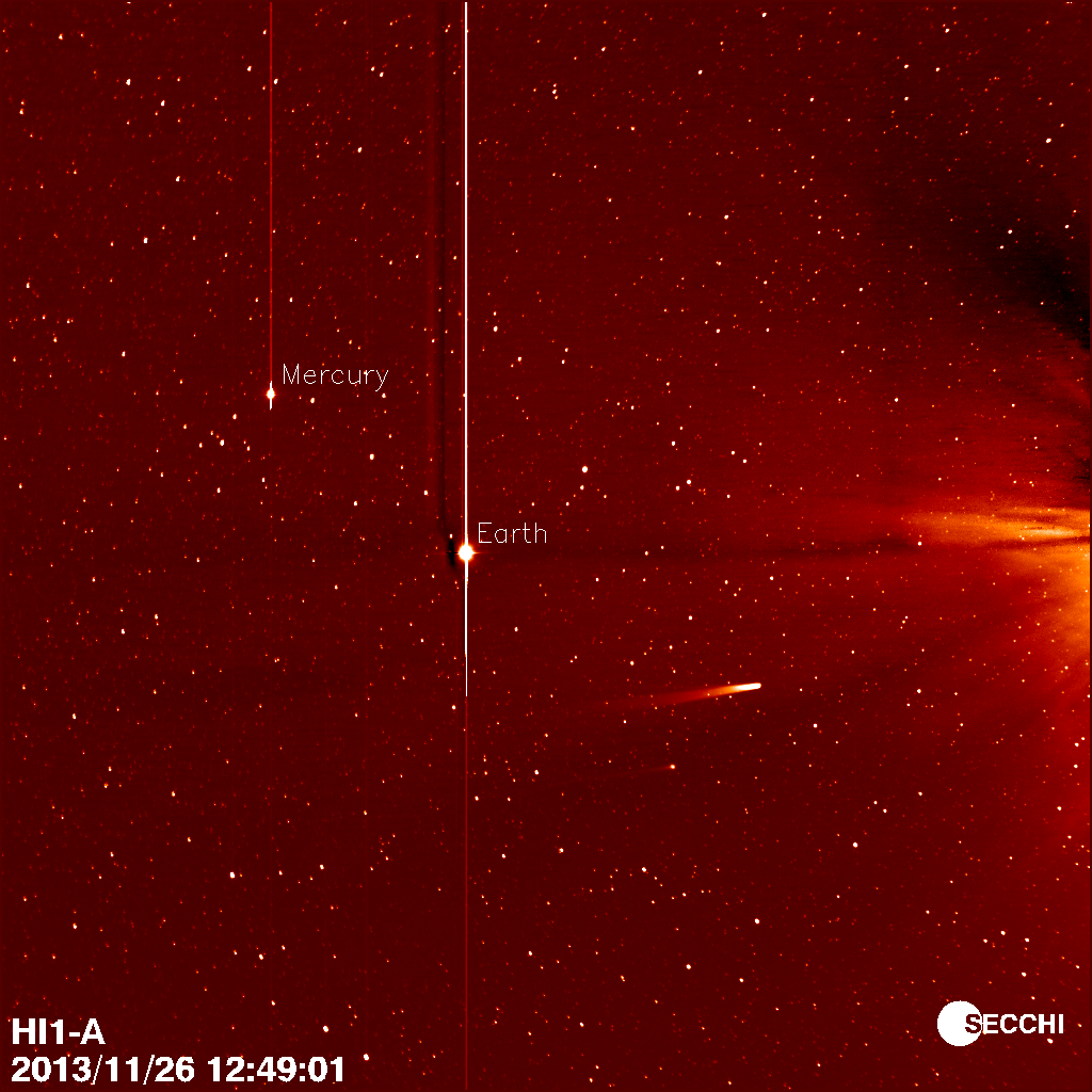 SECCHI Image of comet Ison and comet Encke, 26 November 2013, 12:49:01.